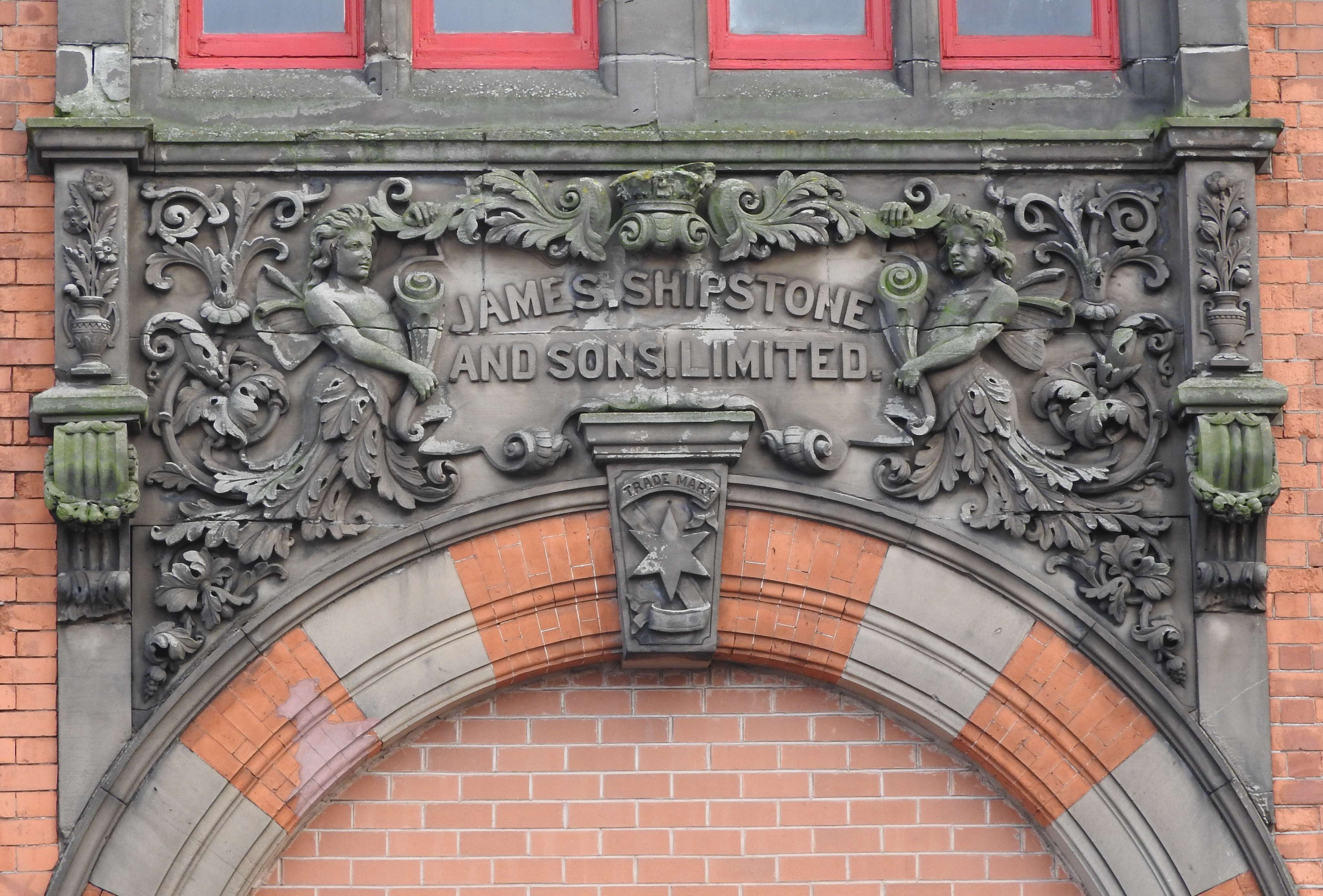 Former Shipstone Star Brewery (1852- 1991) on Radford Road in New Basford Nottingham